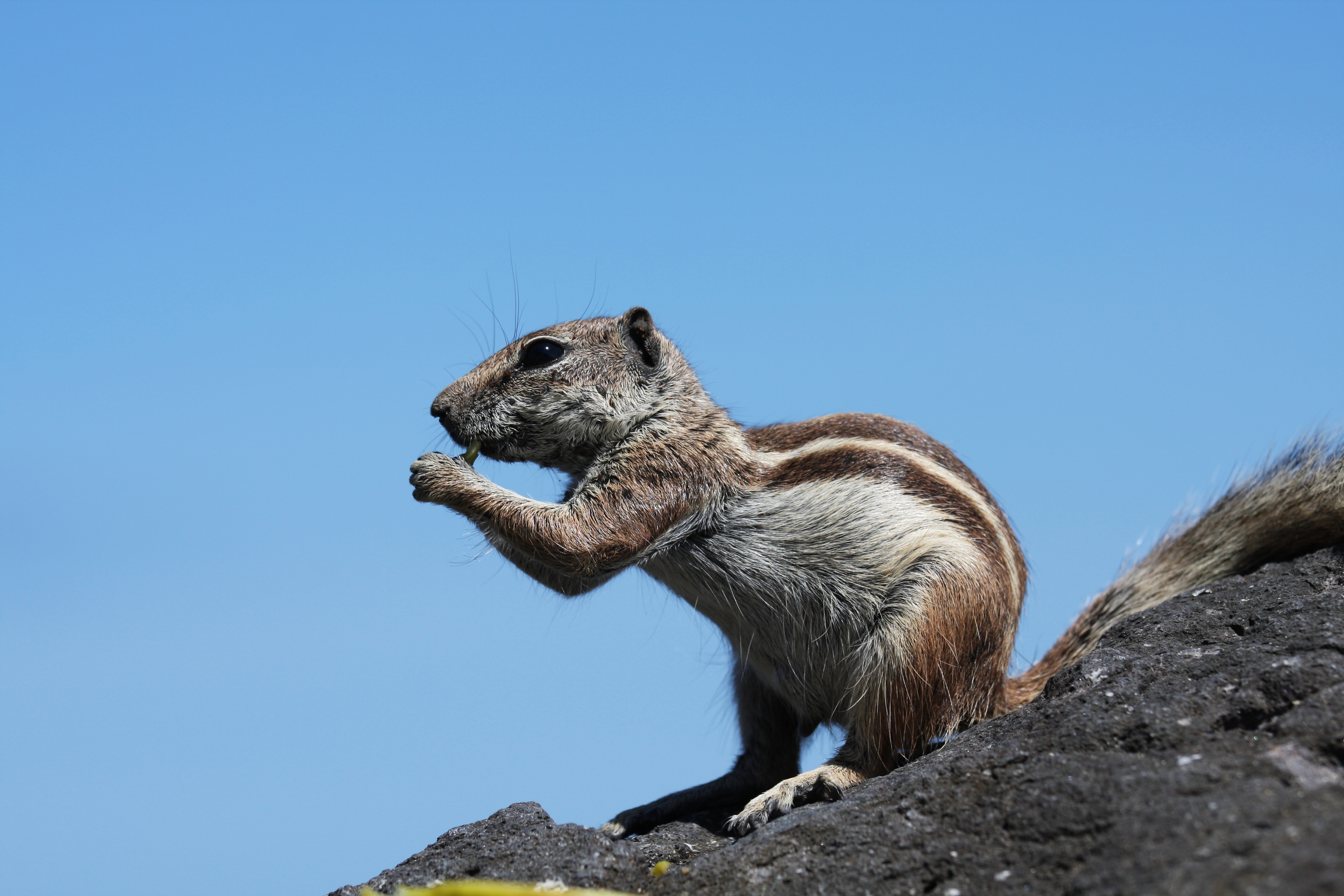 A Barbary Ground Squirrel on Fuerteventura